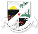 Coat of arm of the city of Augusto Corrêa, Pará, Brazil.